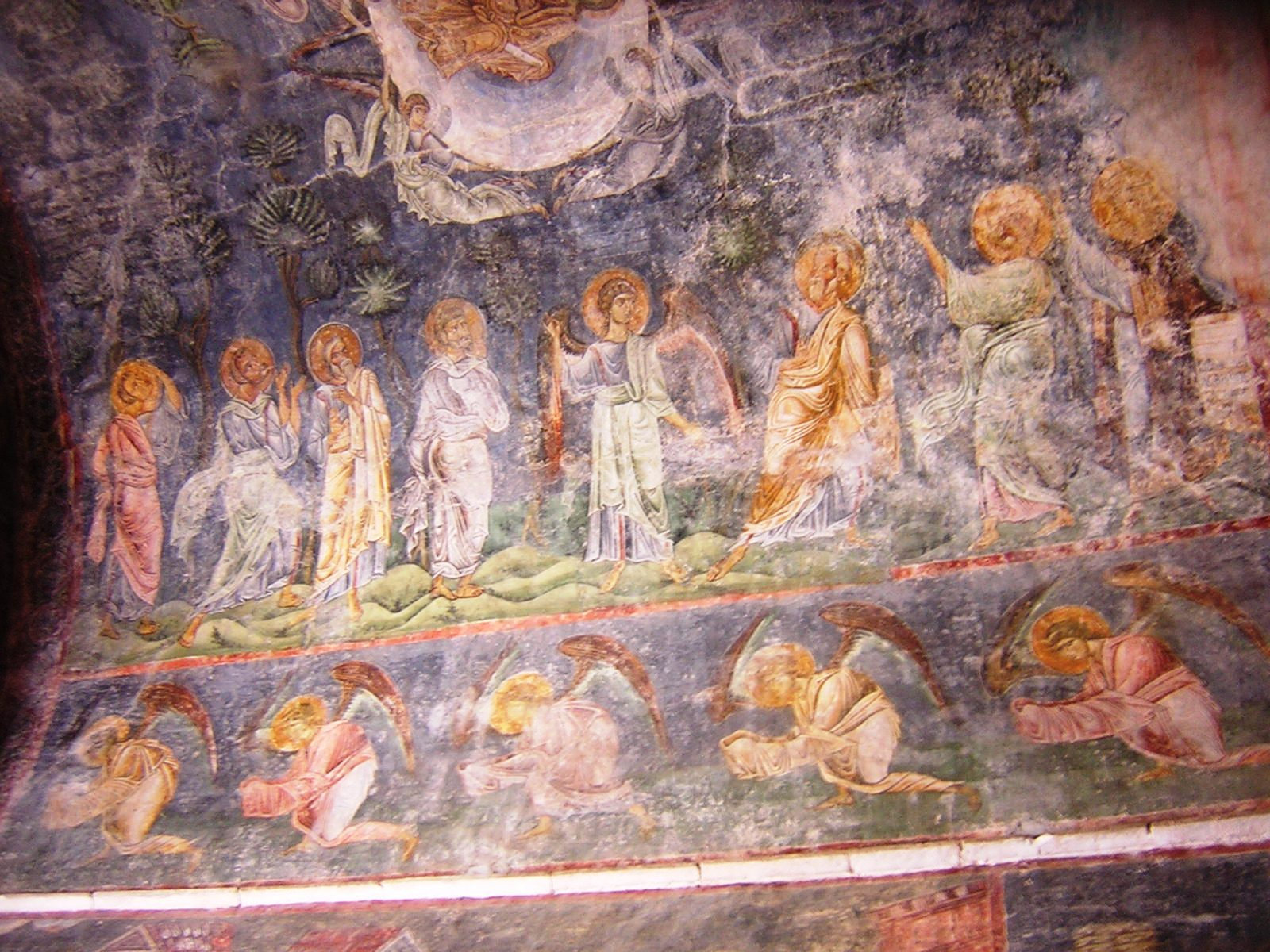 Ceiling frescoes in the church of St. Sofia, Ohrid